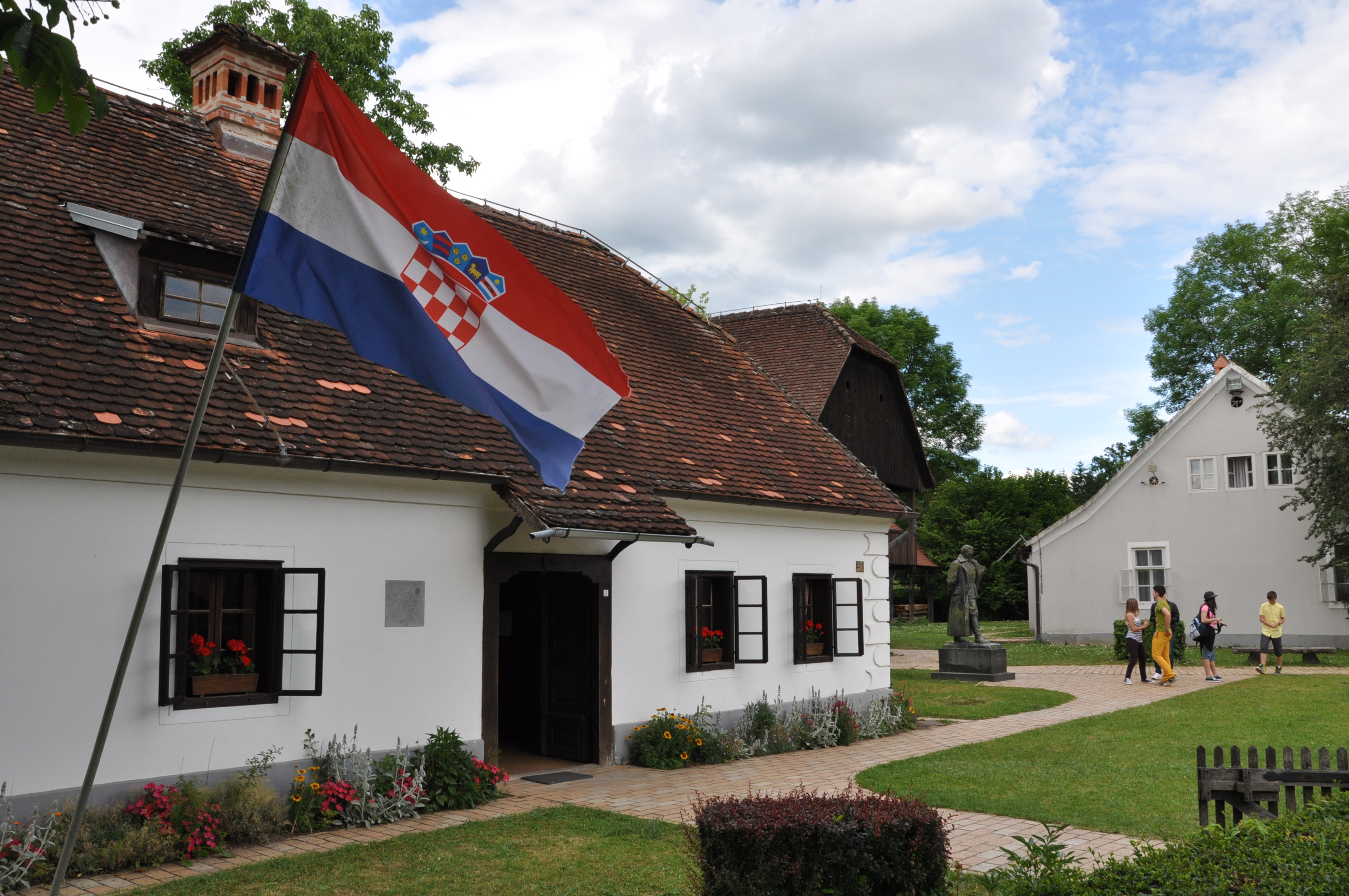 Kumrovec - Staro selo Open Air Museum